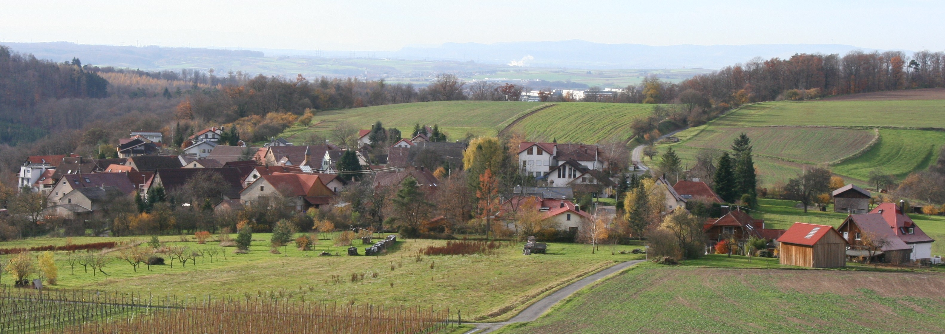 Untergruppenbach-Vorhof